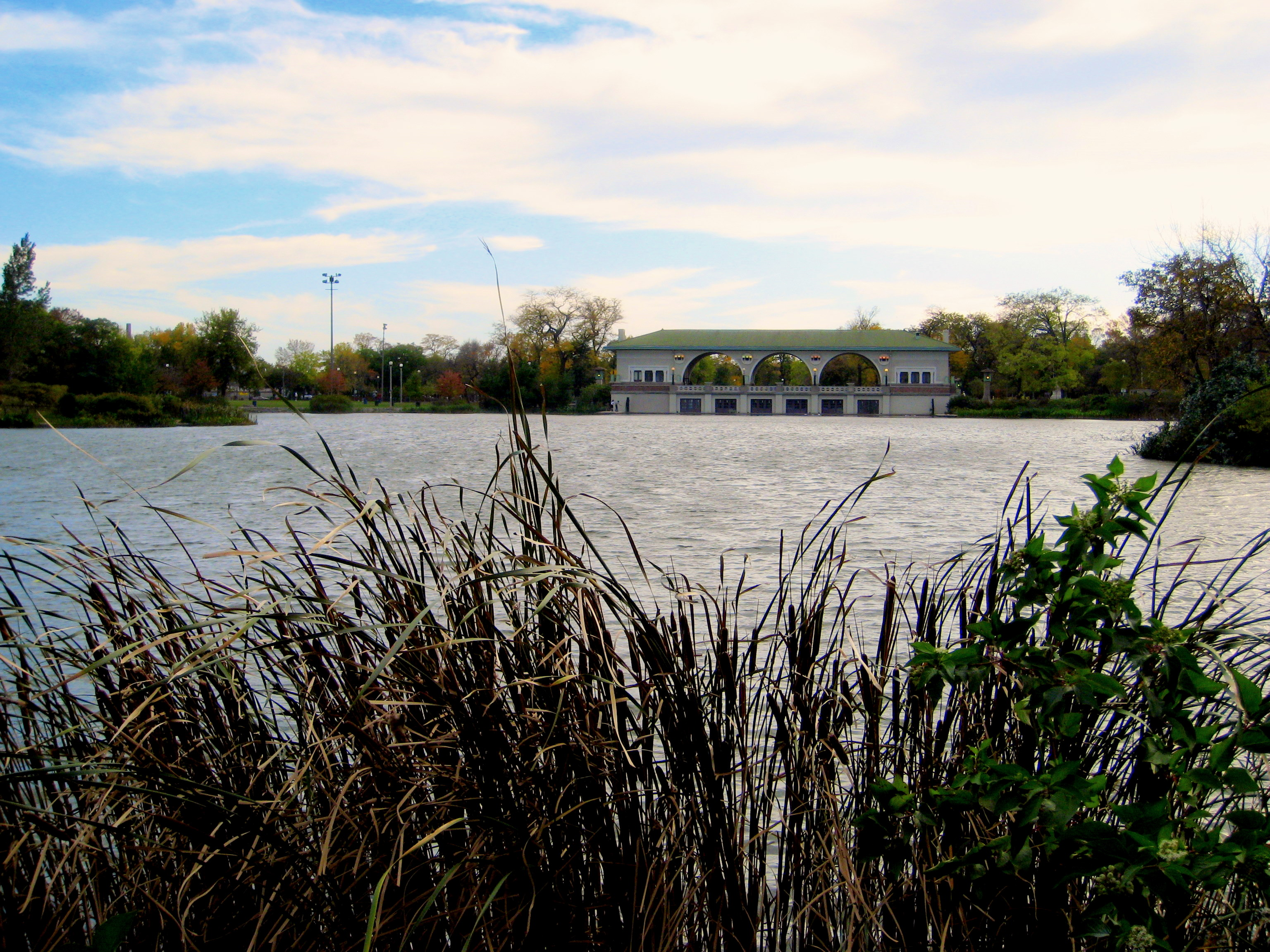 Humboldt Park Lagoon and Boathouse, Chicago.